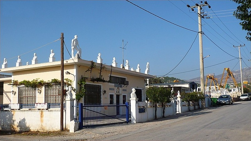 Marble Workshops at Halandri-Greece